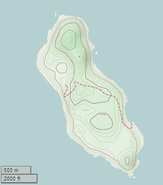 Topographic map of Io-Torishima, Okinawa, Japan.